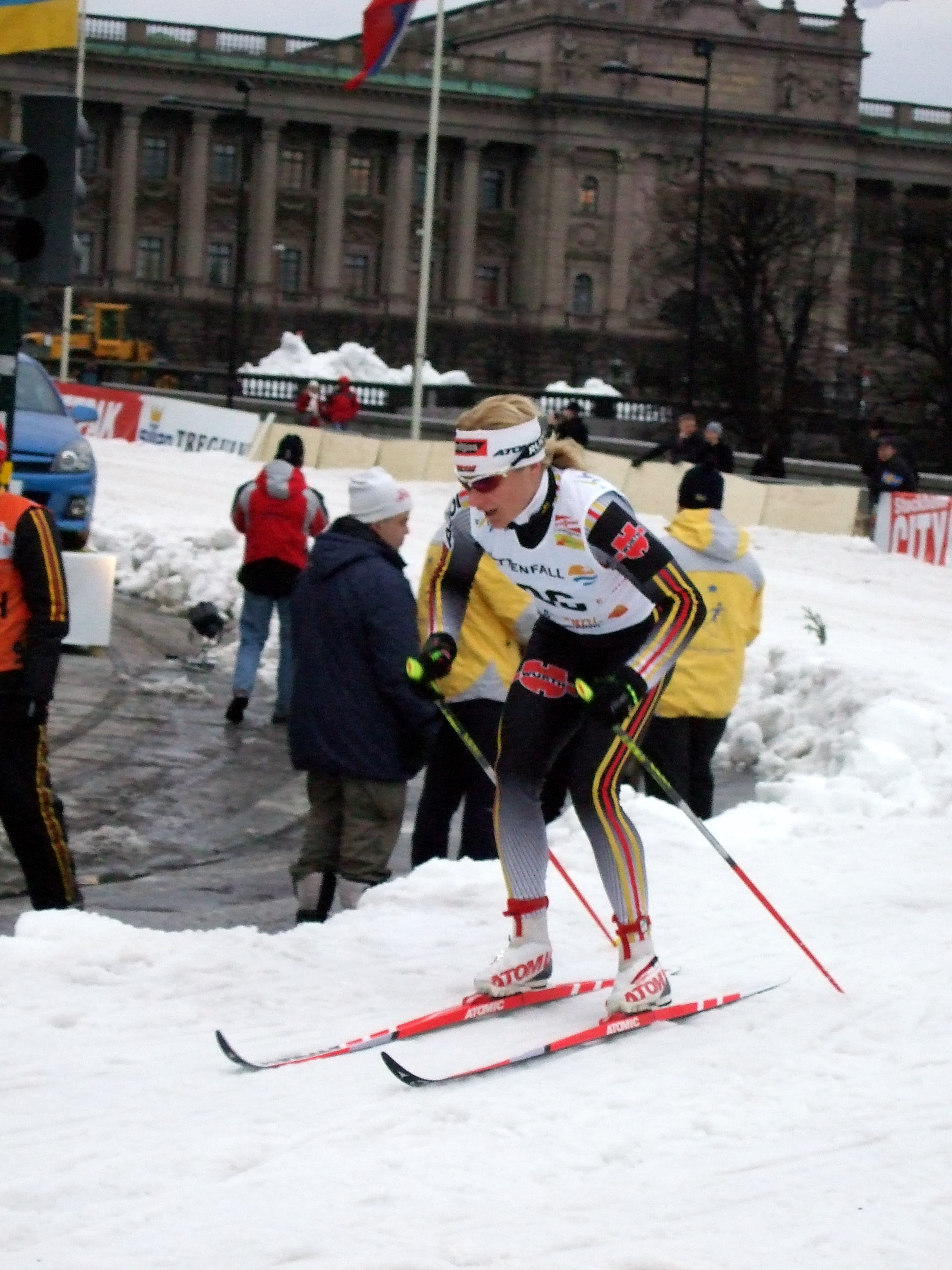 Claudia Künzel-Nystad at the Royal Castle World Cup sprint in Stockholm, Sweden